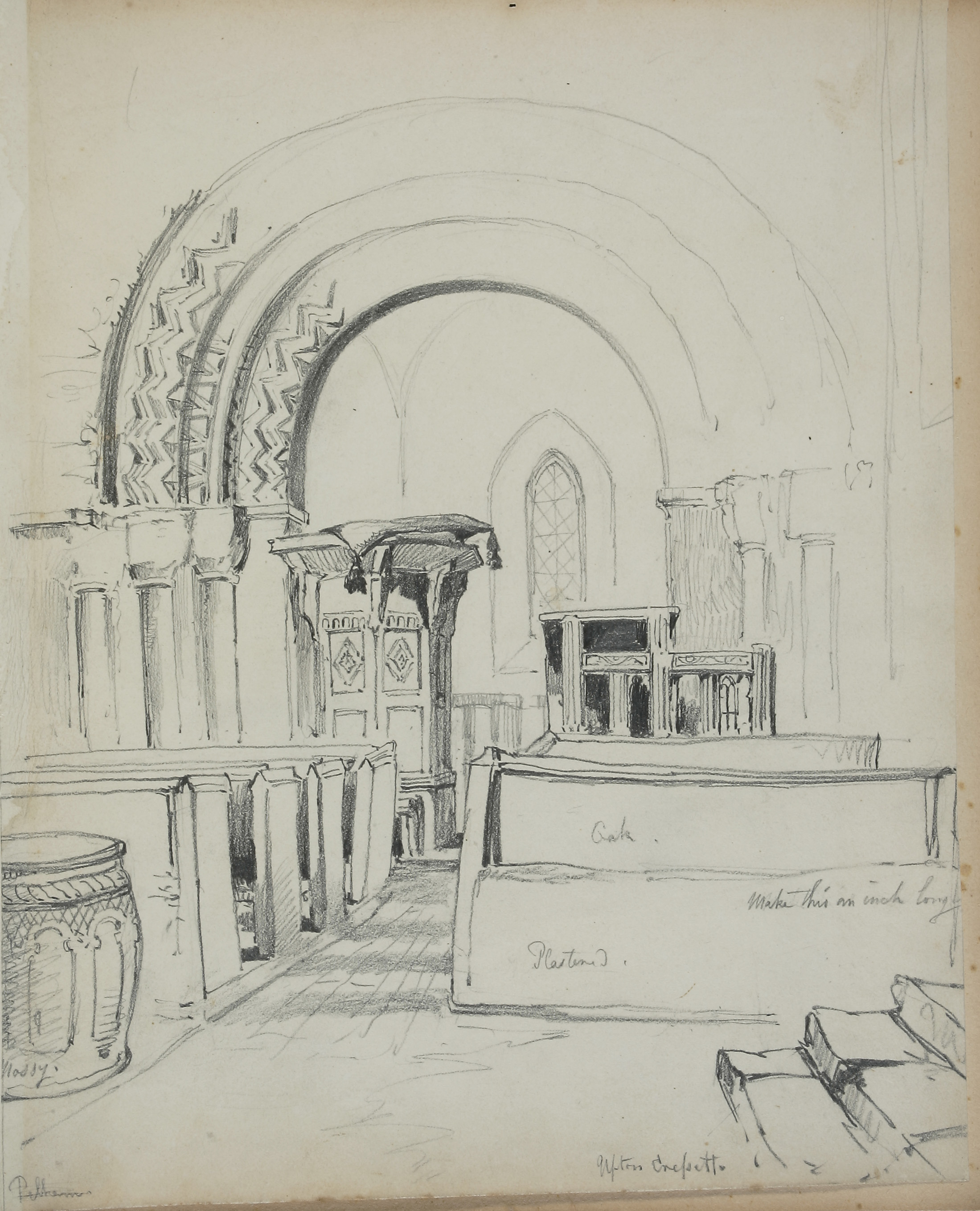 St Michael's Church, Upton Cressett Pencil on paper; 221 x 267mm Inscr. on the pew cr.: Oak/plastered/make this an inch long, and br.: Upton Cressett Accession: BIRSA:2007X.508 From the Lines family sketchbook, in the collection of the Royal Birmingham Society of Artists, Birmingham, England. See Rediscovering the Lines Family - Exhibition catalogue - 2009